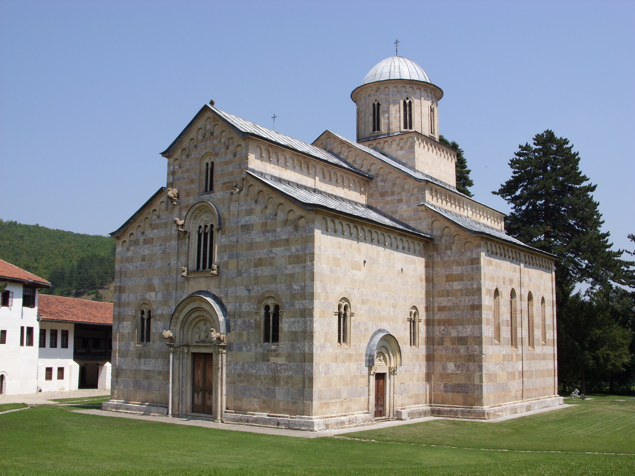 Church of the Visoki Dečani monastery in Kosovo. Hornjoserbsce: Klóšterska cyrkej klóštra Visoki Dečani na Kosowje.